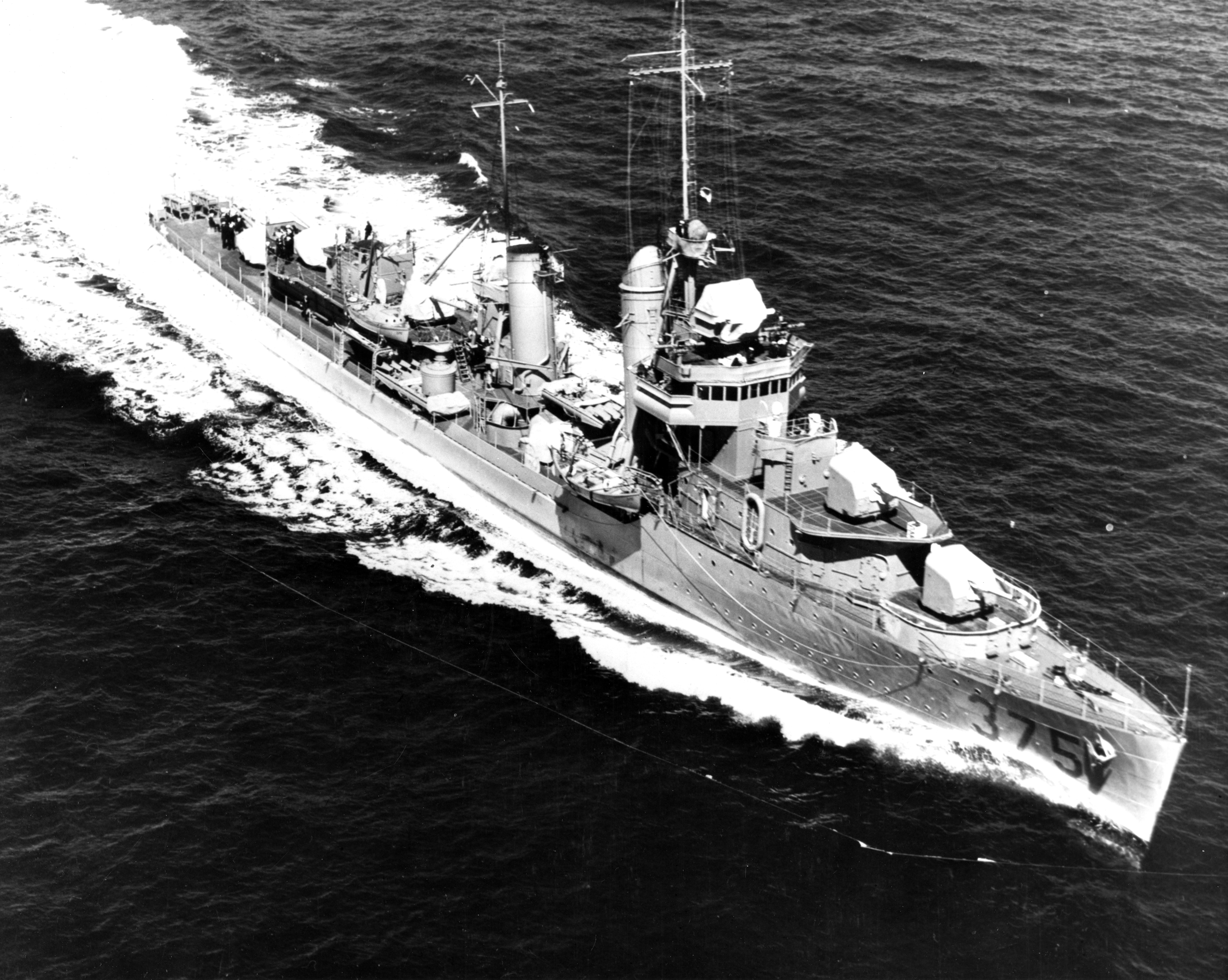 The U.S. Navy destroyer USS Downes (DD-375) underway during the later 1930s. She is wearing a non-standard hull number style on her bow.